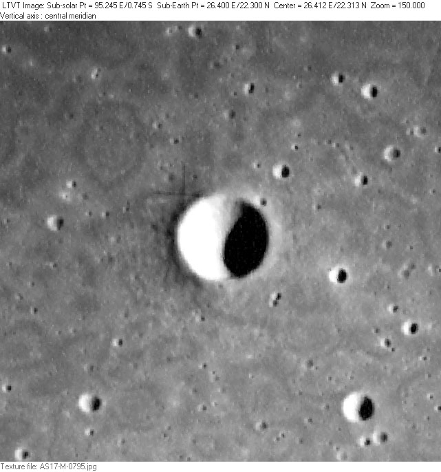 Crater Borel